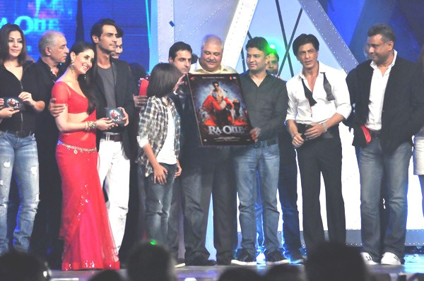 Shahrukh Khan launches 'Ra.One' - Nvidia GEFORCE GTX 560Ti graphic card to promote his film Ra.One